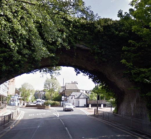 The single storey white buildings on the right are former coal offices on the Stapleton Hall Road (London, N4) railway bridge over the Gospel Oak to Barking railway, as seen in 2012, shortly before their demolition for the construction of new housing. Prior to demolition they were used as a small dwelling, and a cobbler's shop. Here they are seen through the railway bridge of the now defunct Edgware, Highgate and London Railway.